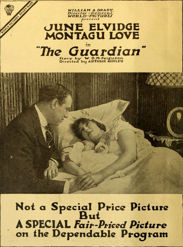 Advertisement in Moving Picture World